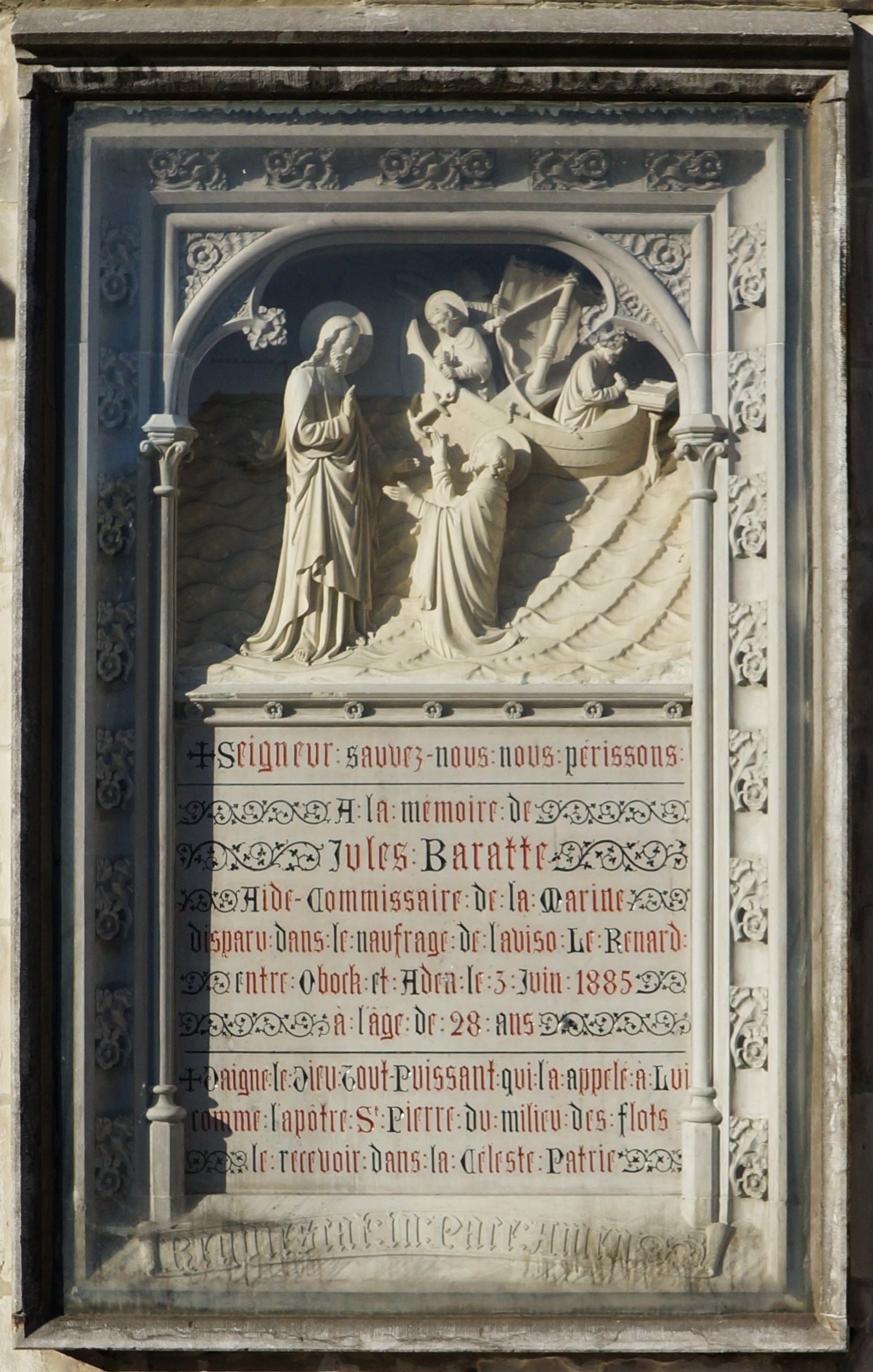 Pattern embossed in relief, in memory of Jules Baratte.- Saint-Martin's church of Templeuve (Nord, France).